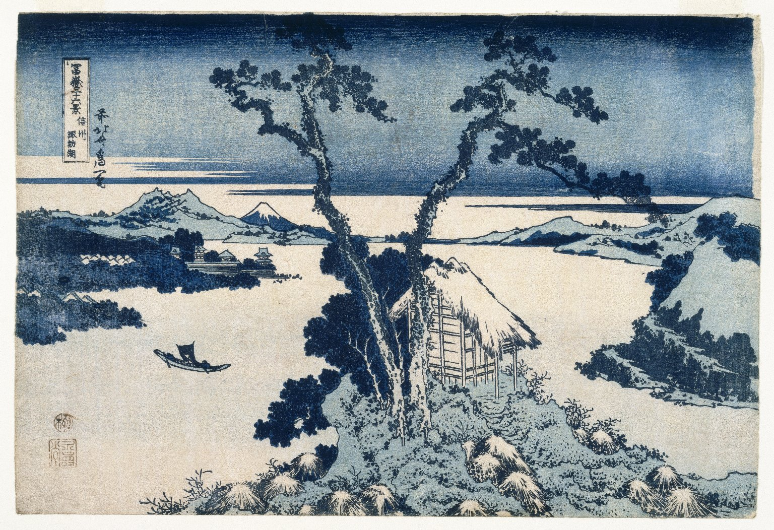 Part of the series Thirty-six Views of Mount Fuji, no. 44, 8th additional woodcut.